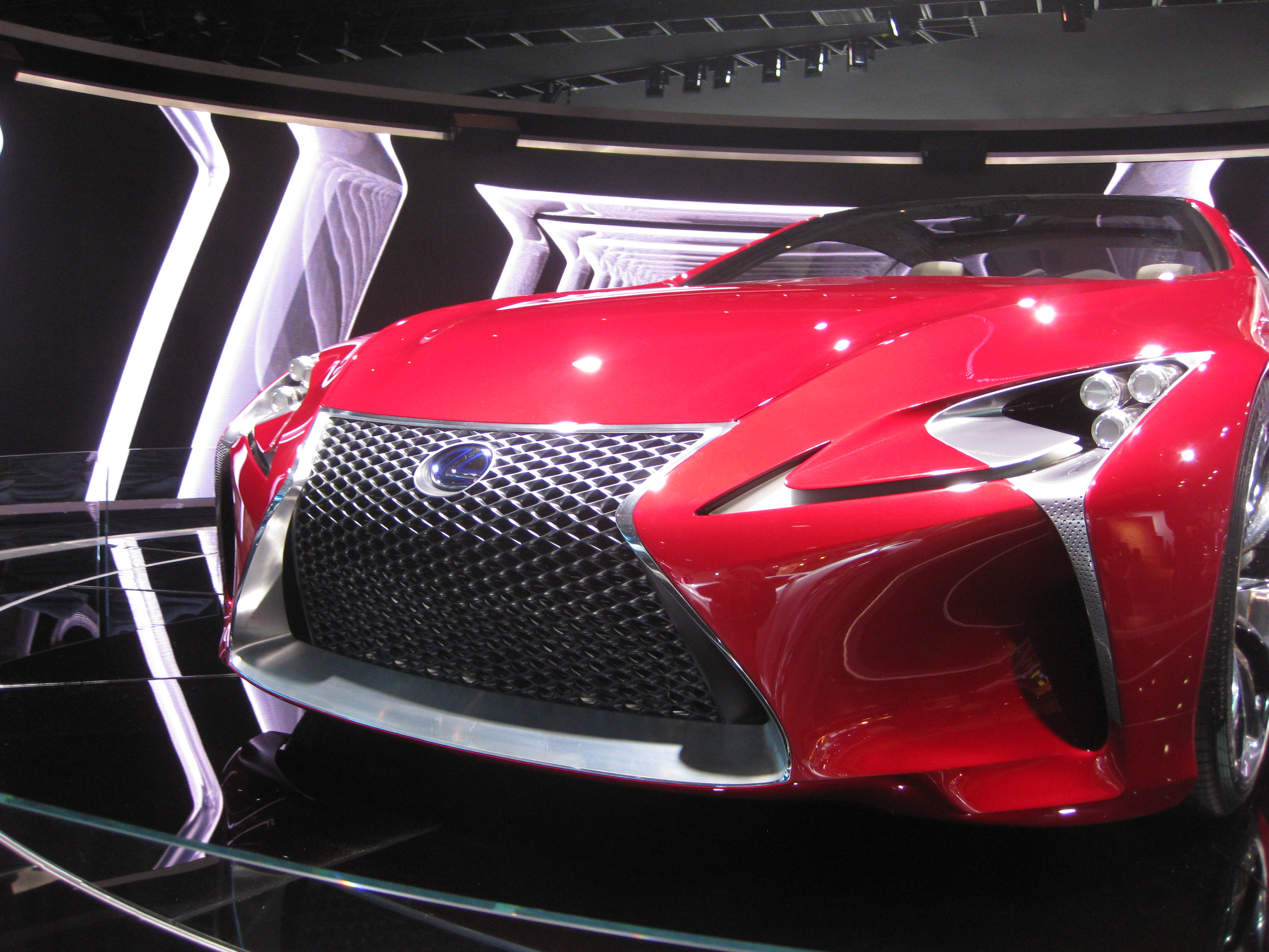 For more info and images please check